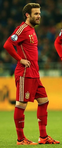 Juan Mata